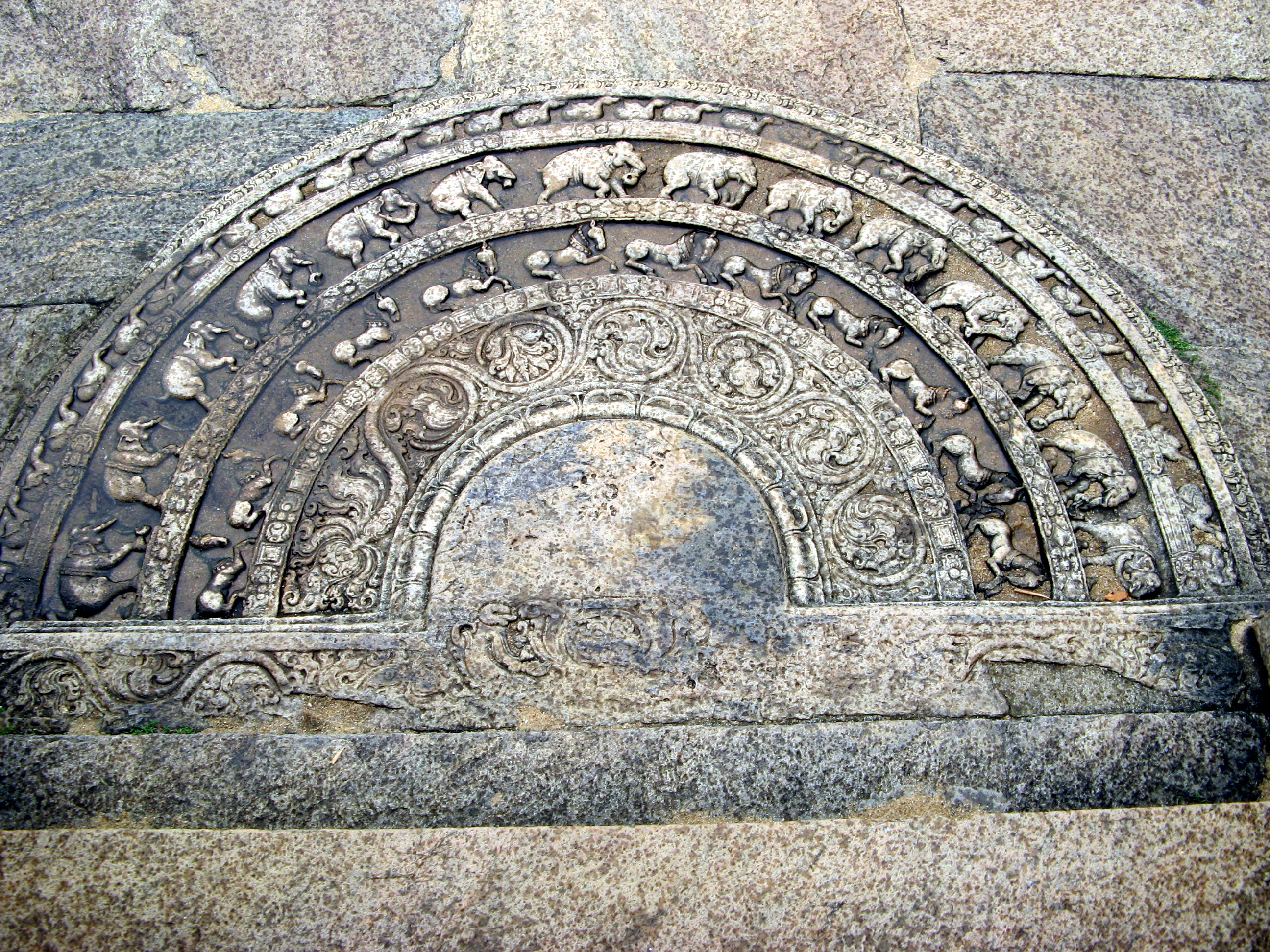 Moonstone. Vatadage, Polonnaruwa The moonstone displays hamsas (outer band), elephants (middle band), and horses (inner band). Compared to the earlier moonstones at Anuradhapura, the lions and bulls have been omitted.